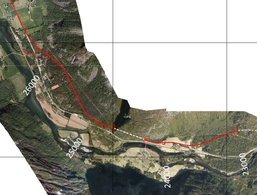 Overview Sketch of new road Monge-Marstein in Romsdalen near Kors church, E136, per 2018